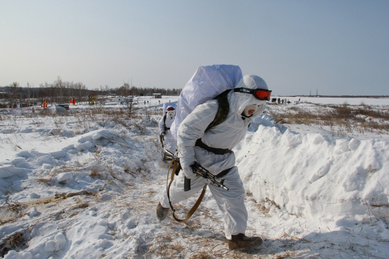 ДВВКУ